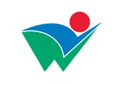 Flag of Nagawa Nagano